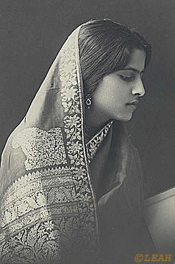 Attia Hosain in the 1930s - say 1935